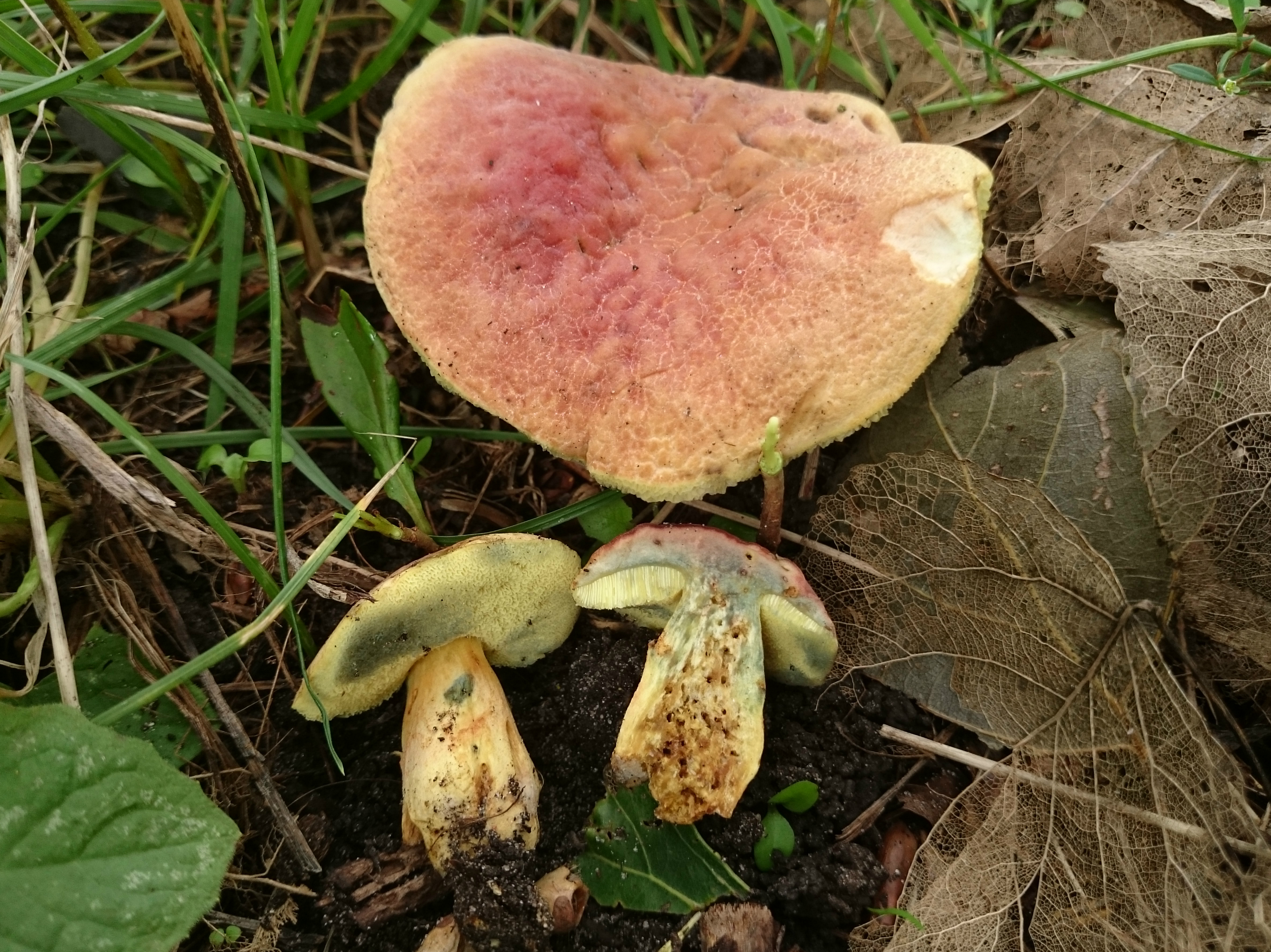 Fruitbodies of the bolete fungus Xerocomus bubalinus,, (Oolbekkink & van Duin) Redeuilh. Photographed in Florence Nightingalepark, Houtwijk, Den Haag, Netherlands.